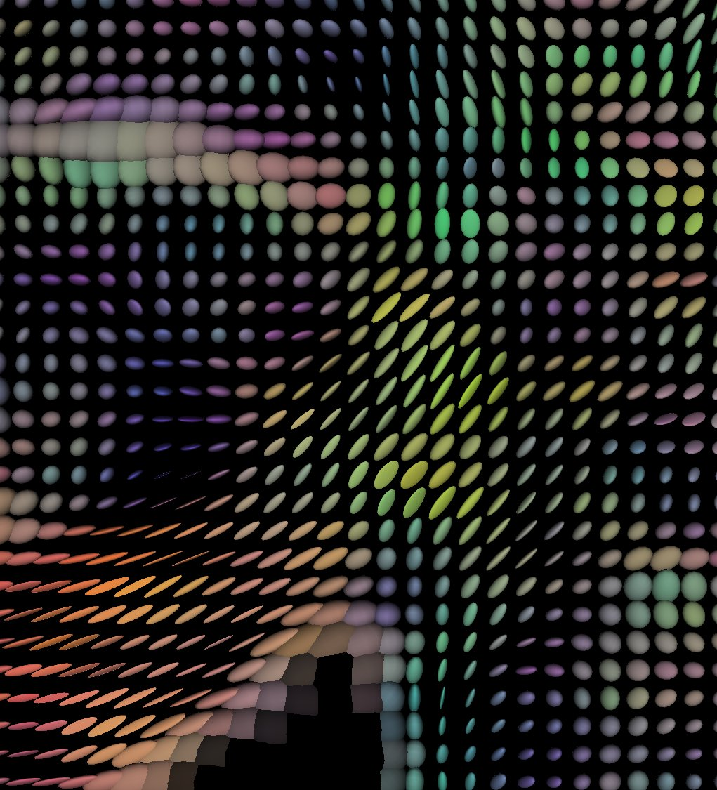 Visualization of DTI data, depicting a detail of an axial slice of a human brain. The visualization uses standard diffusion ellipsoids, colored with the XYZ-RGB principal eigenvector color mapping. Elongated ellipsoids indicate the presence and direction of homogeneous fiber tracts (white matter) within the voxel. Small spherical ellipsoids indicate gray matter, large spherical ellipsoids indicate that some part of the voxel is filled with cerebrospinal fluid (in the black area at the bottom, very large ellipsoids have been masked to avoid occlusions).